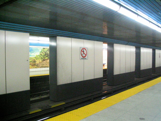 Looking across platforms at North York Centre subway station, Toronto.